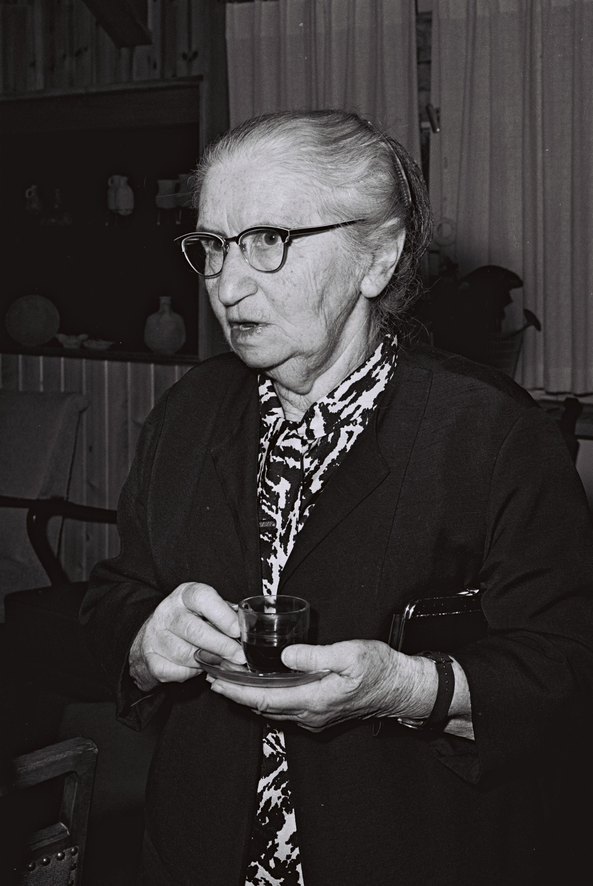 PORTRAIT, MRS. RACHEL SHAZAR. ôåøèøè øòééú ðùéà äîãéðä, äâá' øçì ùæø.